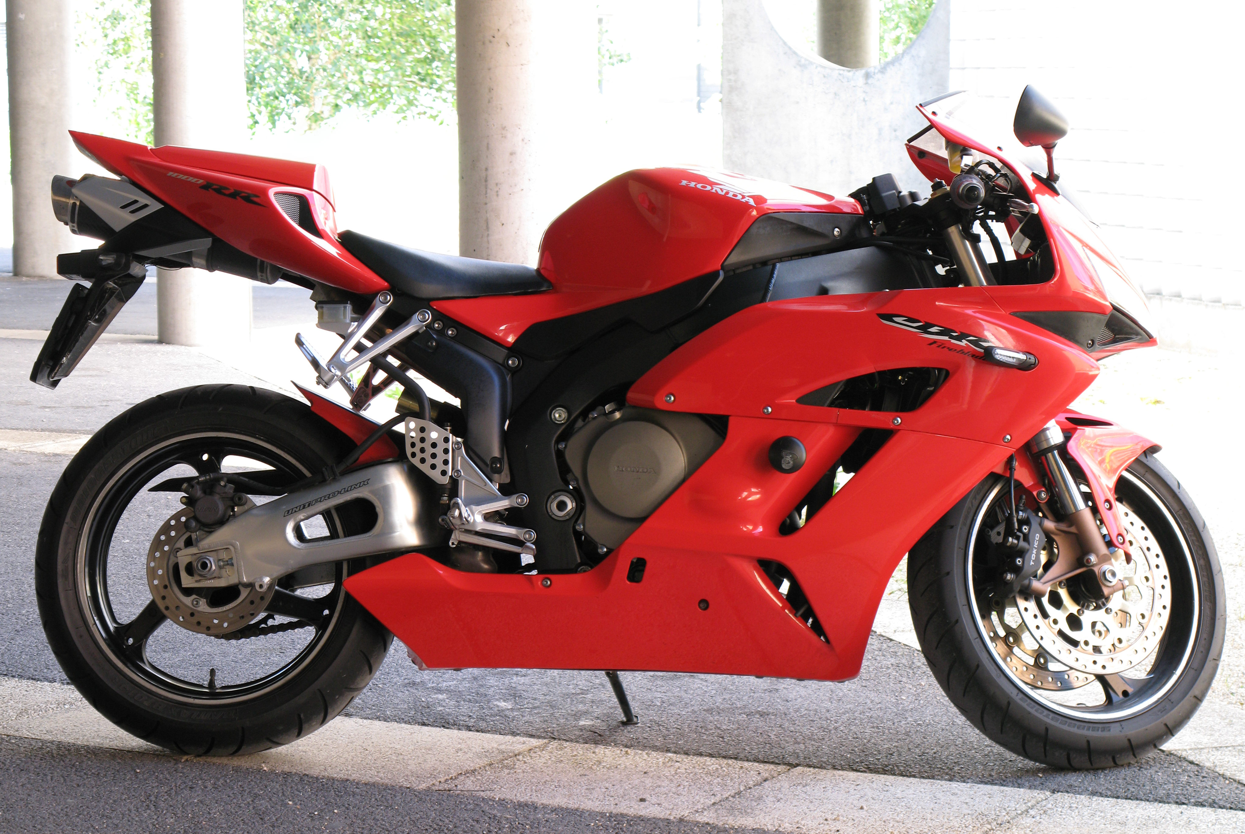 Honda CBR 1000 RR Fireblade